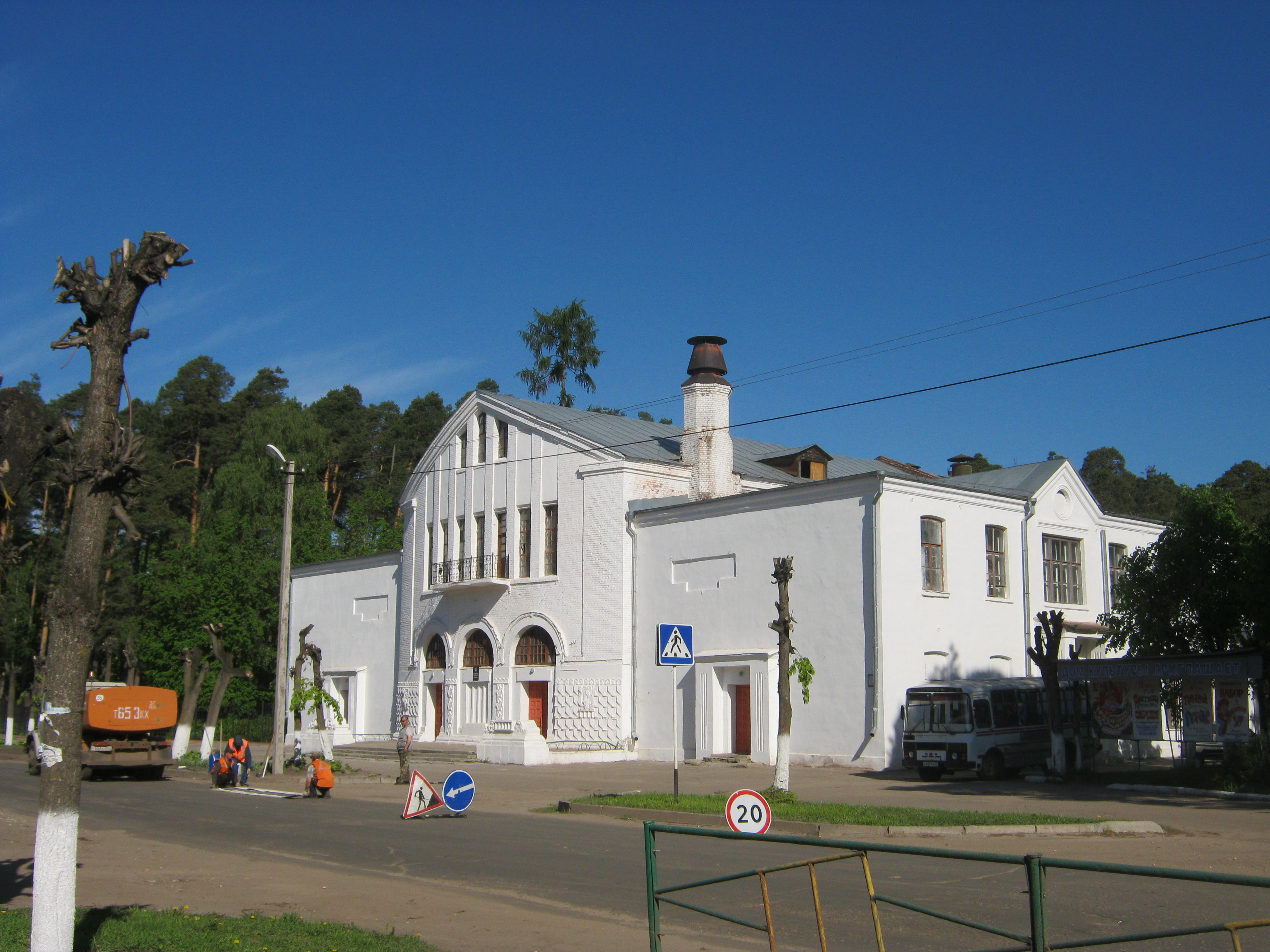 Yuzha. Sovetskaya street, 9. Design by Gustav Helrich (1910).